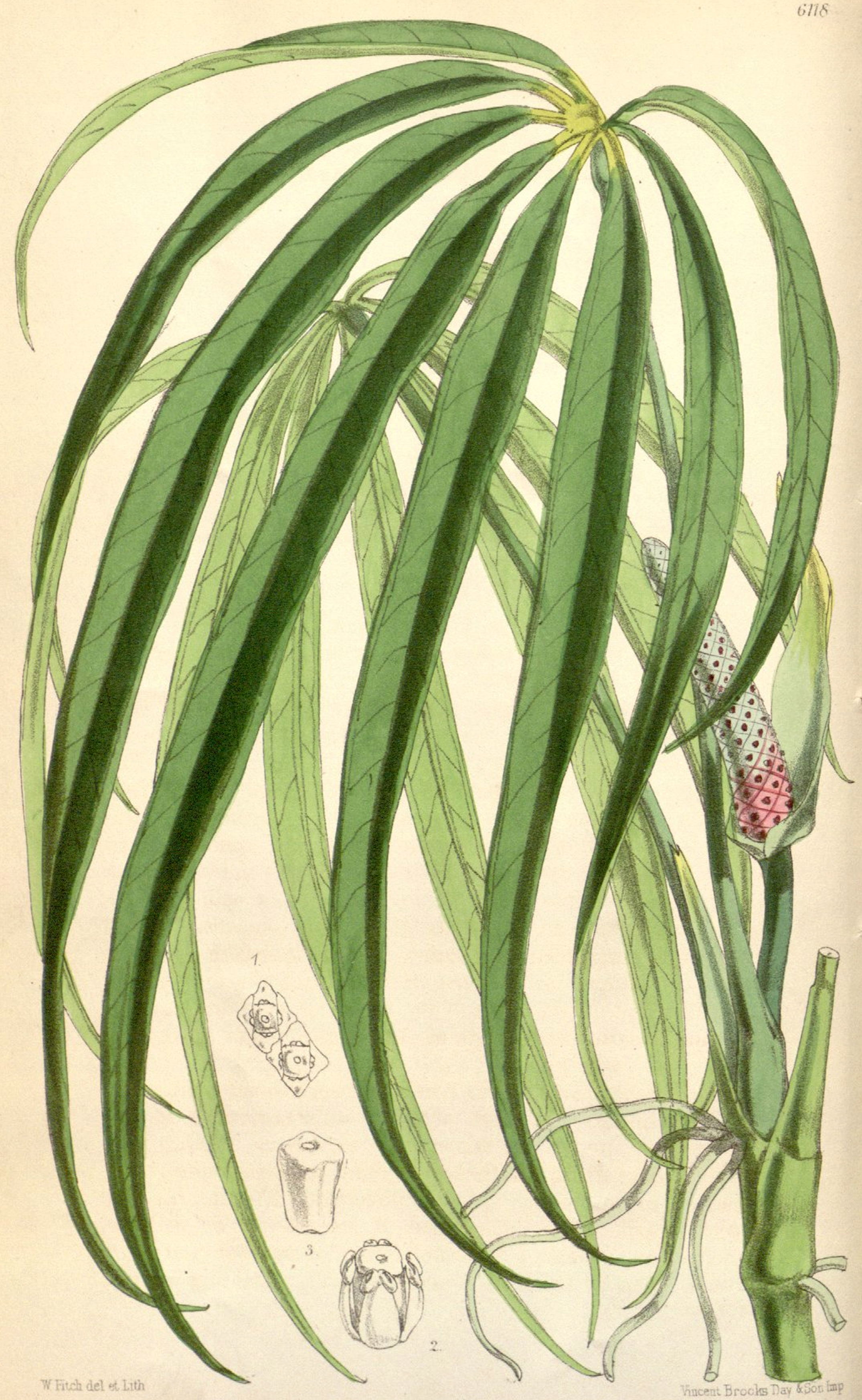 Anthurium pentaphyllum var. pentaphyllum (orig. as A. saundersii) botanical drawing